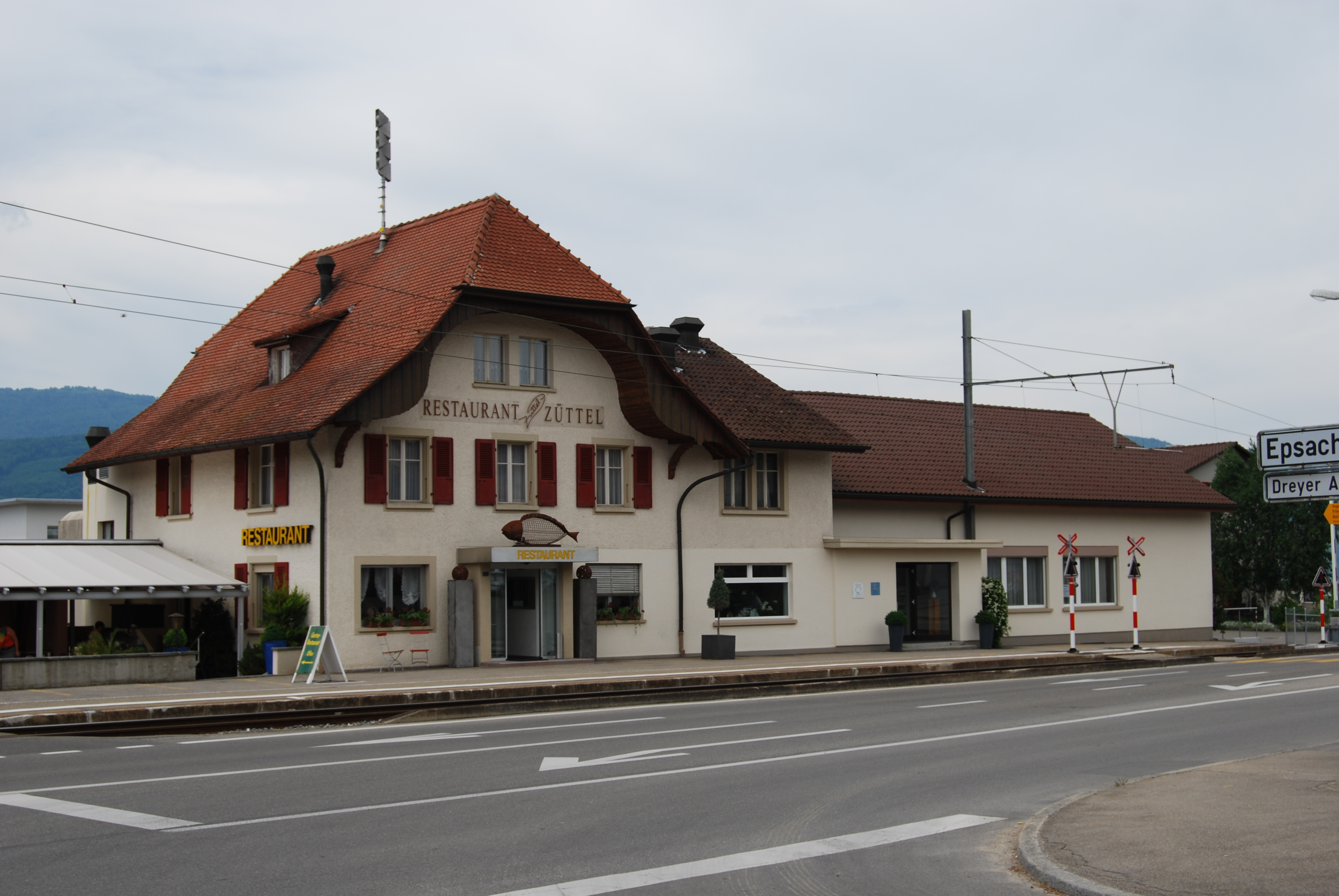 Gerolfingen, municipality of Täuffelen, canton of Bern, Switzerland